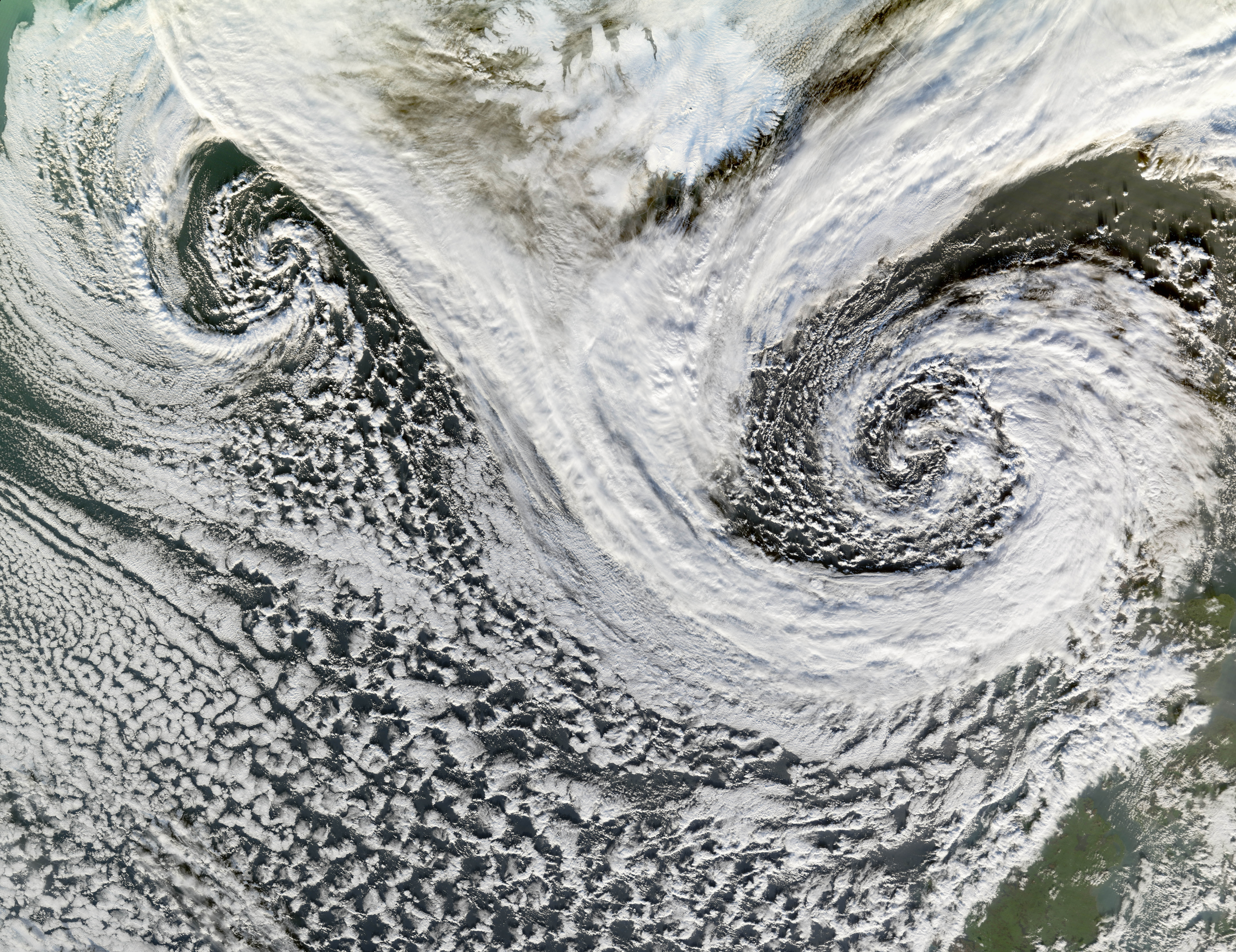 A cyclone is a low-pressure area of winds that spiral inwards. Although tropical storms most often come to mind, these spiraling storms can also form at mid- and high latitudes. Two such cyclones formed in tandem in November 2006. The Moderate Resolution Imaging Spectroradiometer (MODIS) flying onboard NASA’s Terra satellite took this picture on November 20. This image shows the cyclones south of Iceland. Scotland appears in the lower right. The larger and perhaps stronger cyclone appears in the east, close to Scotland. Cyclones at high and mid-latitudes are actually fairly common, and they drive much of the Earth’s weather. In the Northern Hemisphere, cyclones move in a counter-clockwise direction, and both of the spiraling storms in this image curl upwards toward the northeast then the west. The eastern storm is fed by thick clouds from the north that swoop down toward the storm in a giant “V” shape on either side of Iceland. Skies over Iceland are relatively clear, allowing some of the island to show through. South of the storms, more diffuse cloud cover swirls toward the southeast. Credit: NASA NASA Goddard Space Flight Center is home to the nation's largest organization of combined scientists, engineers and technologists that build spacecraft, instruments and new technology to study the Earth, the sun, our solar system, and the universe. Follow us on Twitter Join us on Facebook